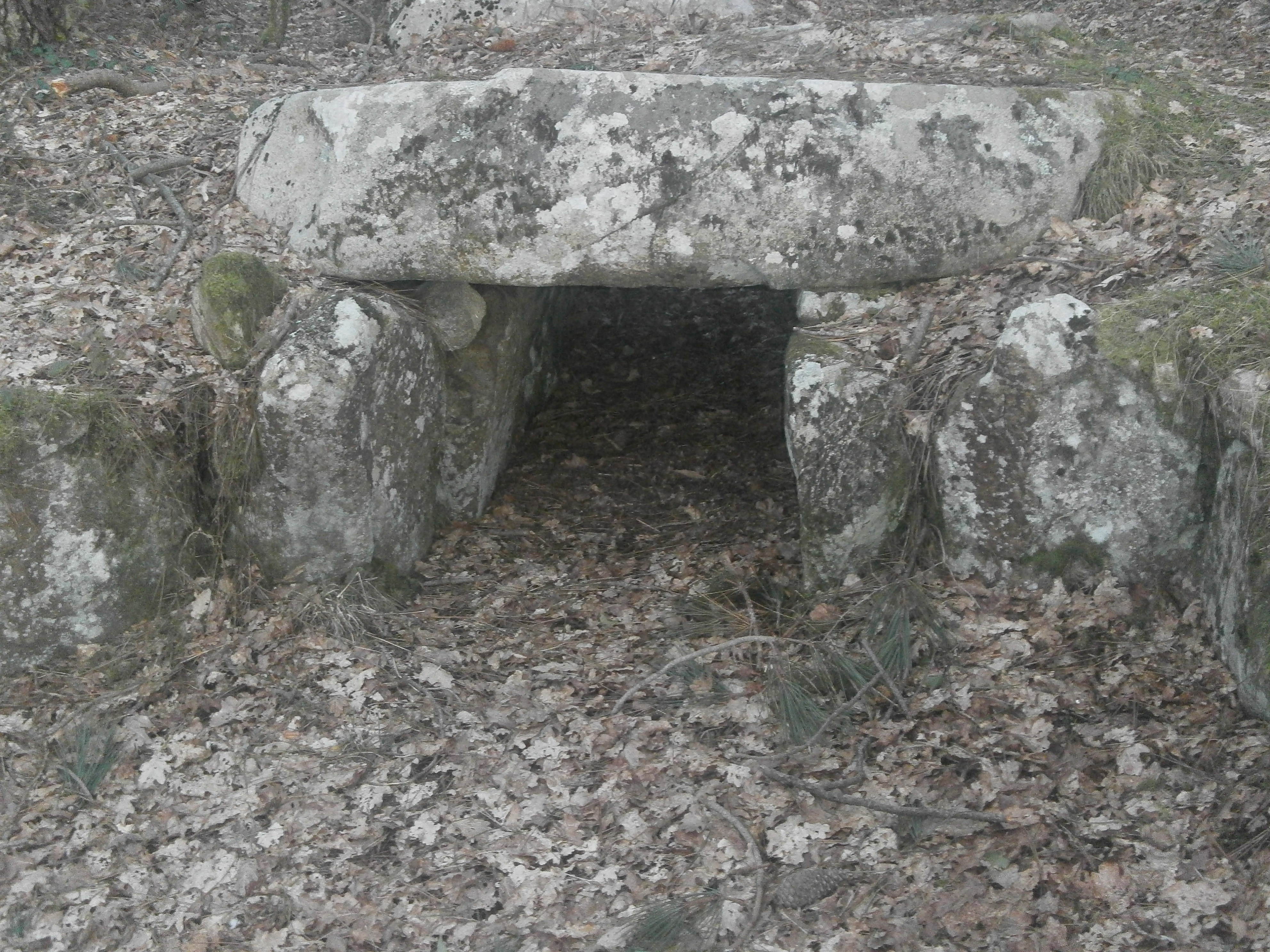 Site mégalithique près de Carnac